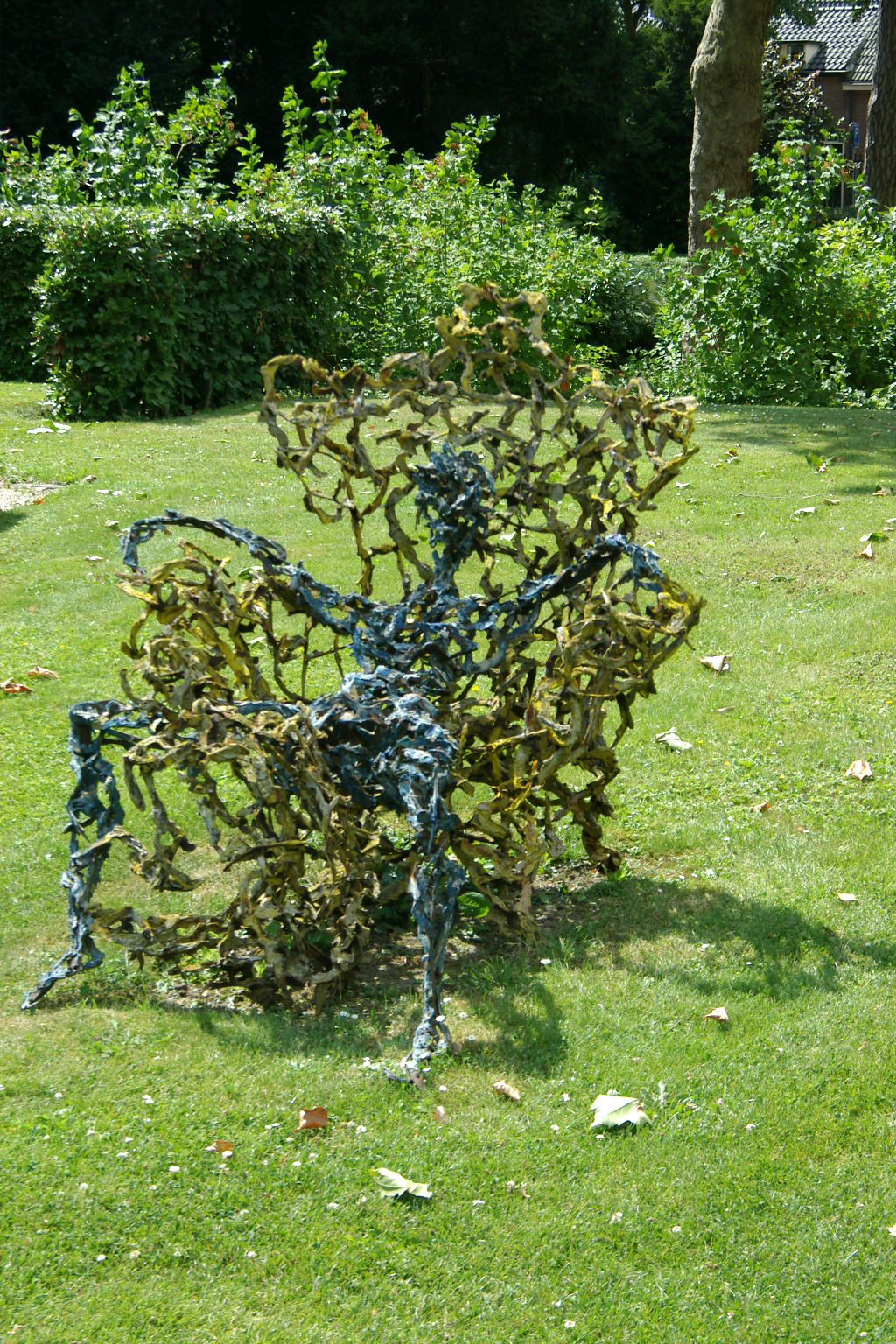 Sculpture Tiel/The Netherlands